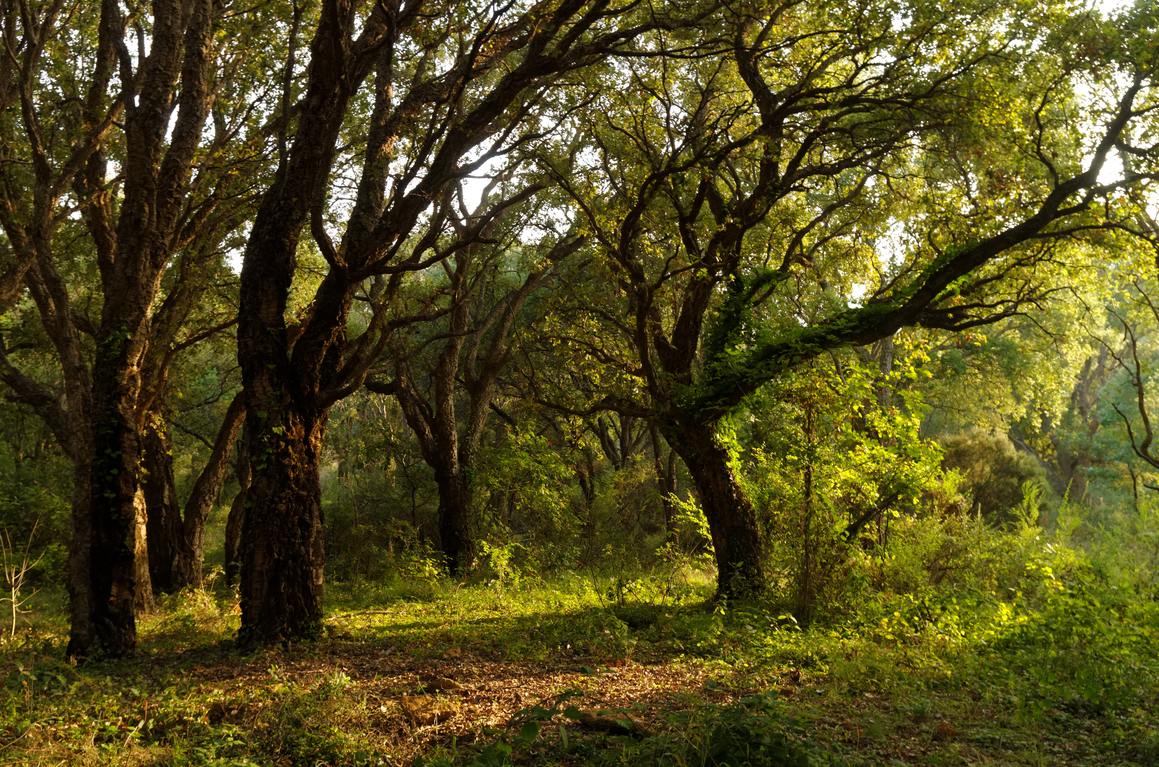 quercus suber forest